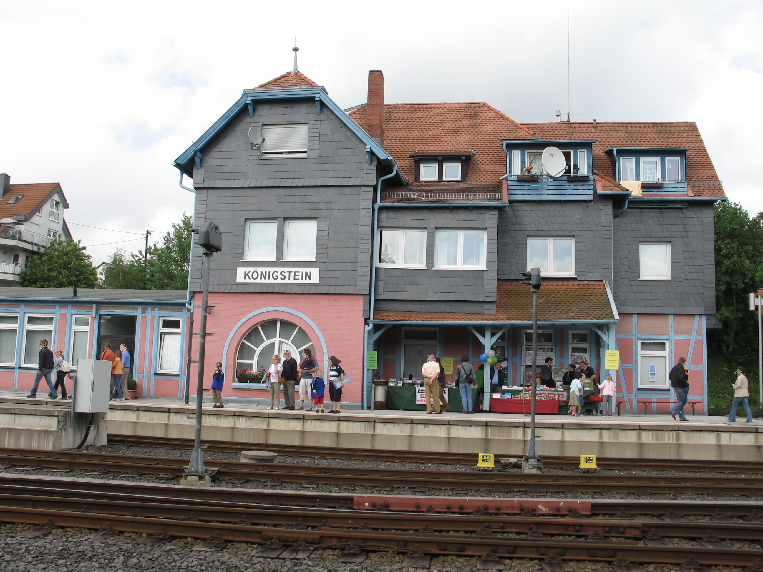 Central station of Koenigstein im Taunus.